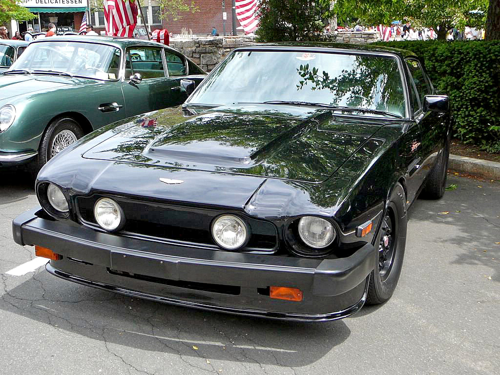 1982 Aston Martin V8 Vantage, in 2006 Scarsdale Coucours